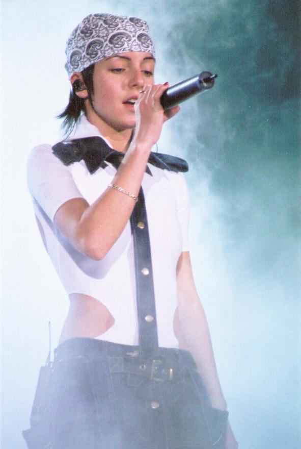 Julia Volkova, one half of the Russian pop group, t.A.T.u.. Taken during a concert in 2003.